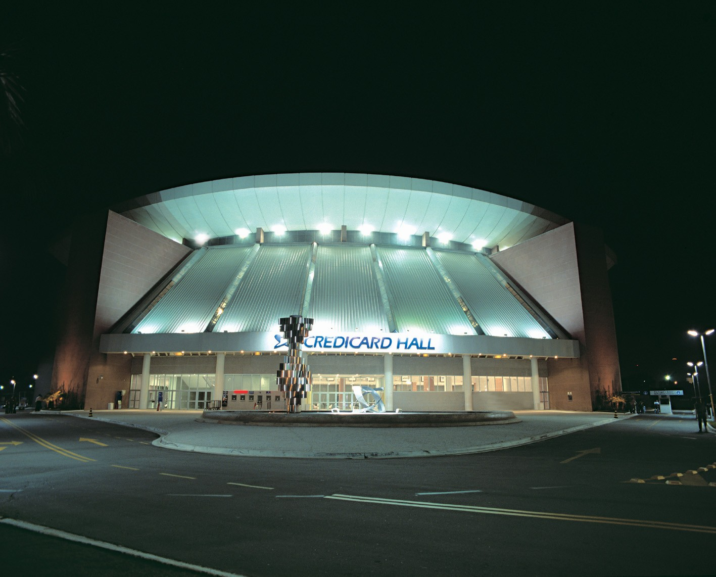 Credicard Hall